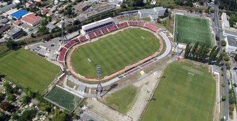 Kispest, Budapest, district XIX, Hungary, aerial photography